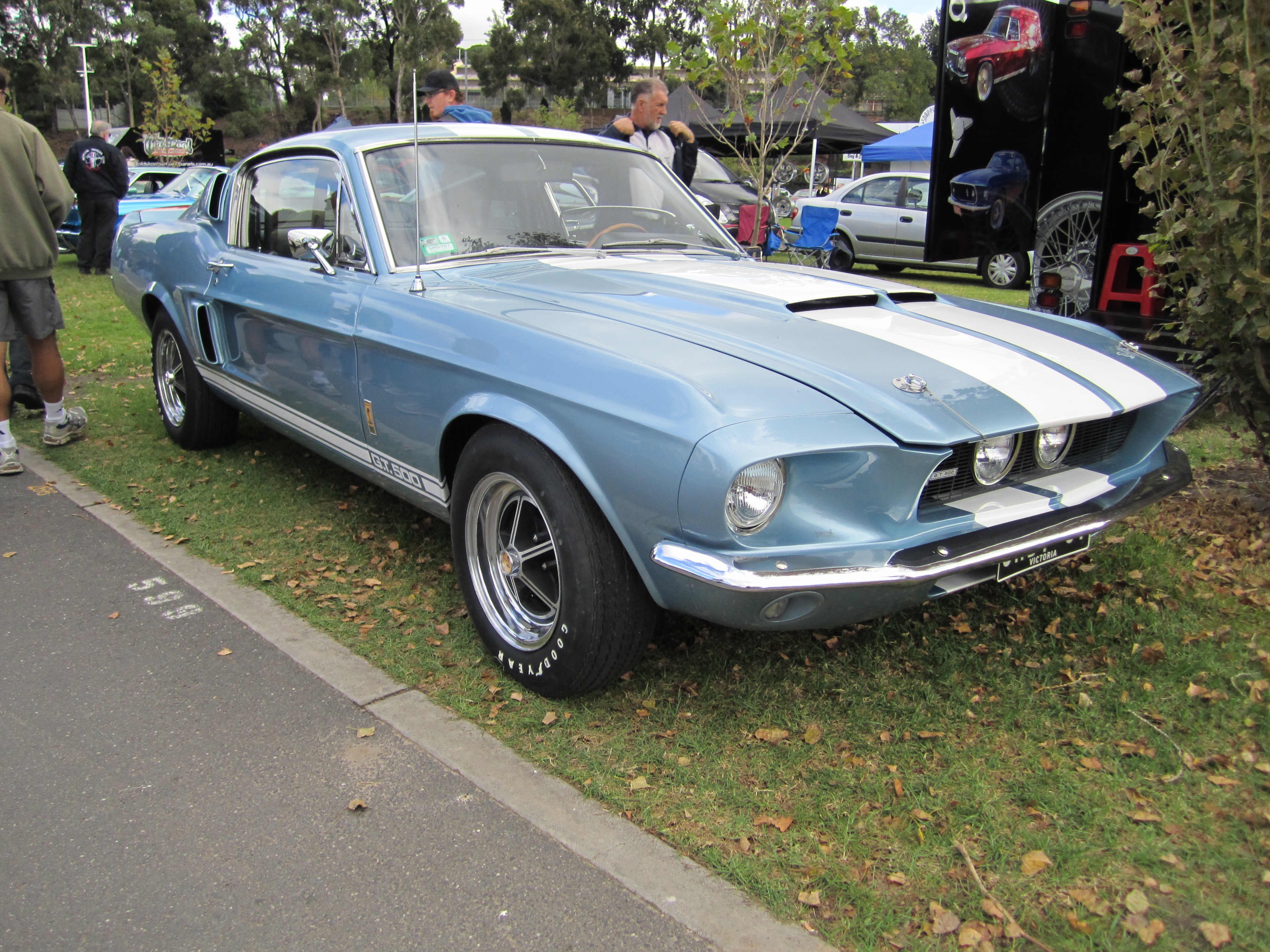 Brittany Blue. 2048 GT500s made (1175 GT350s). Engine; 355 bhp 428 cu in V8